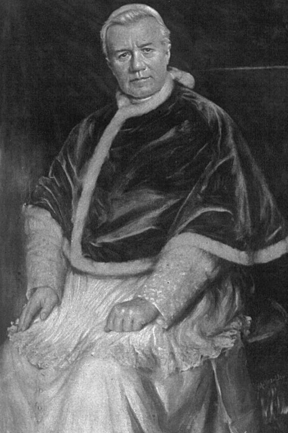 Portrait of Pope Pius X.